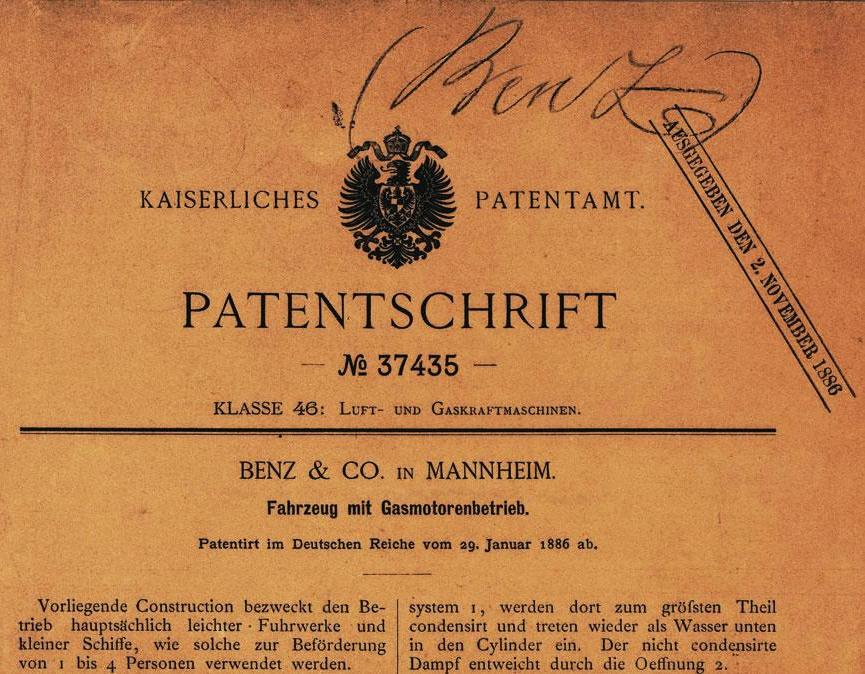 The first lines of the registration of the patent for Karl Benz car. Year 1886. It's interesting to notice that in 1886 the German patents office had a category: fuel powered vehicles ( Gaskraftmaschinen ). Patent number: 37435. The purpose of the presented construction is to be a light vehicle. It should serve 1 to 4 persons...